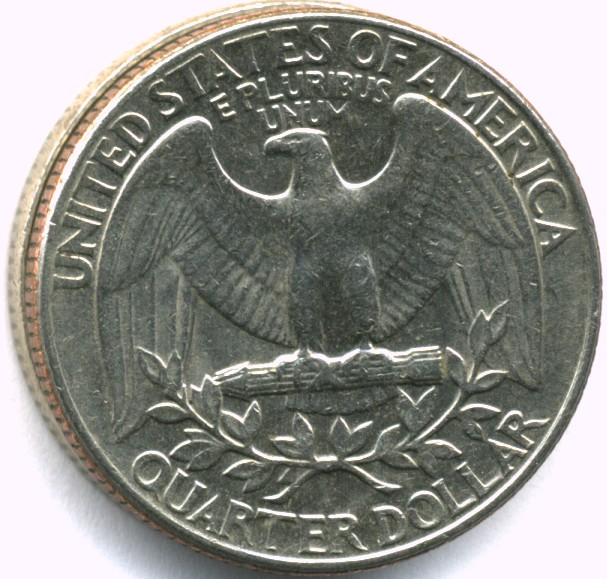 A U.S. Quarter on top of a Philippine one Piso coin